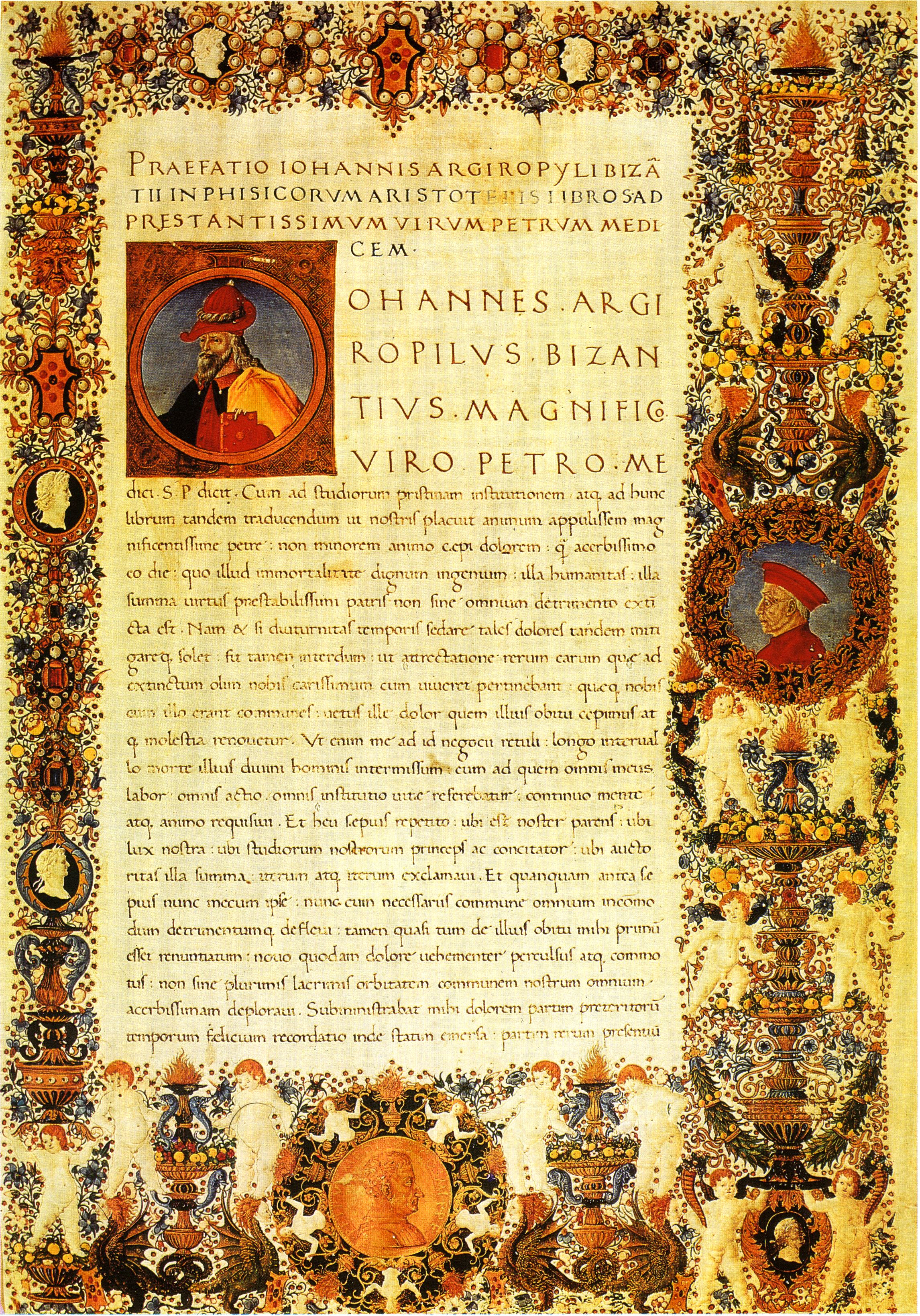 John Argyropoulos, Preface to his Latin translation of Aristotle’s Physics. Florence, Biblioteca Medicea Laurenziana, Plut. 84.1, fol. 2r.